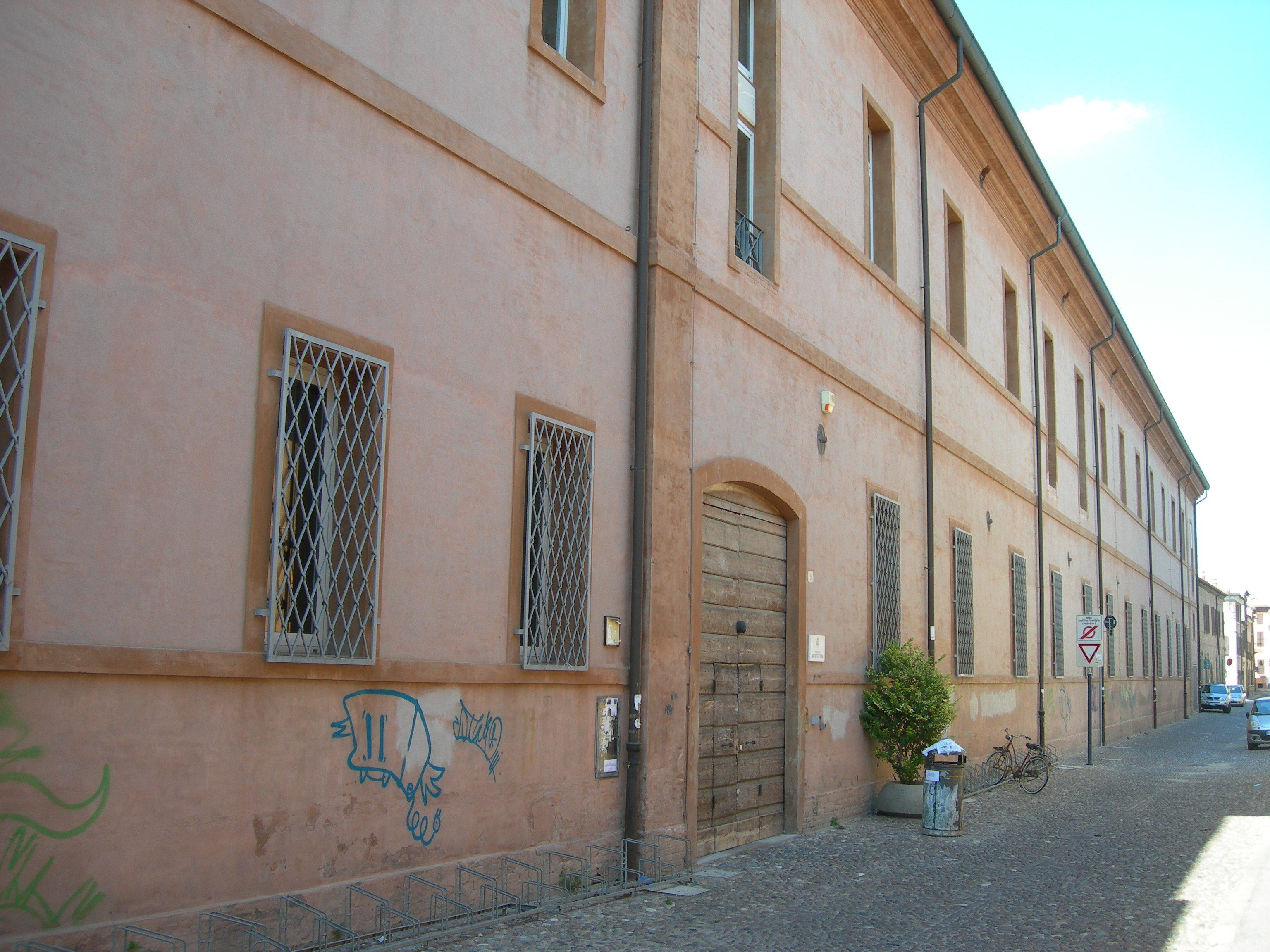 College of Architecture